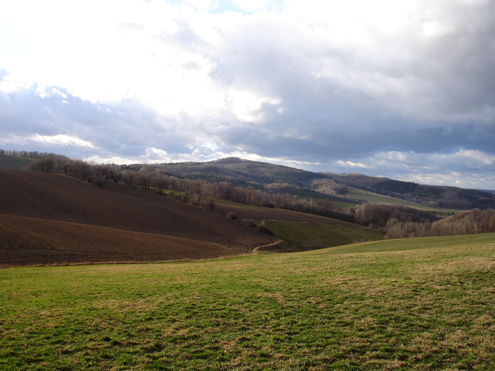 view to mountain Wilisch near Dresden, Saxony, Germany